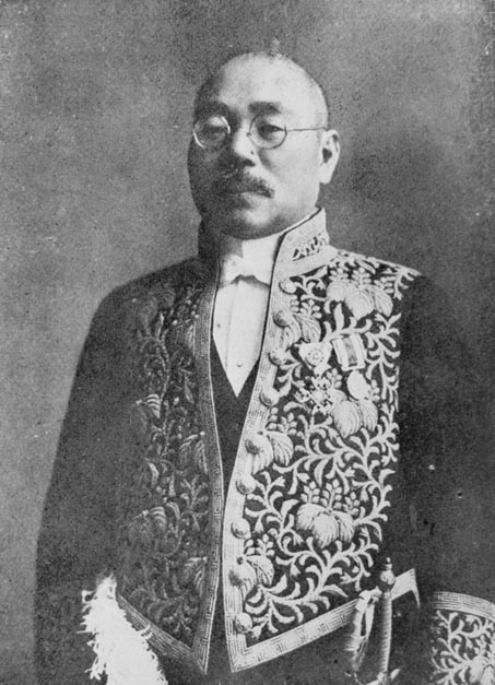 Kenryū Yoshida, 3rd director of the Hiroshima Higher Normal School.